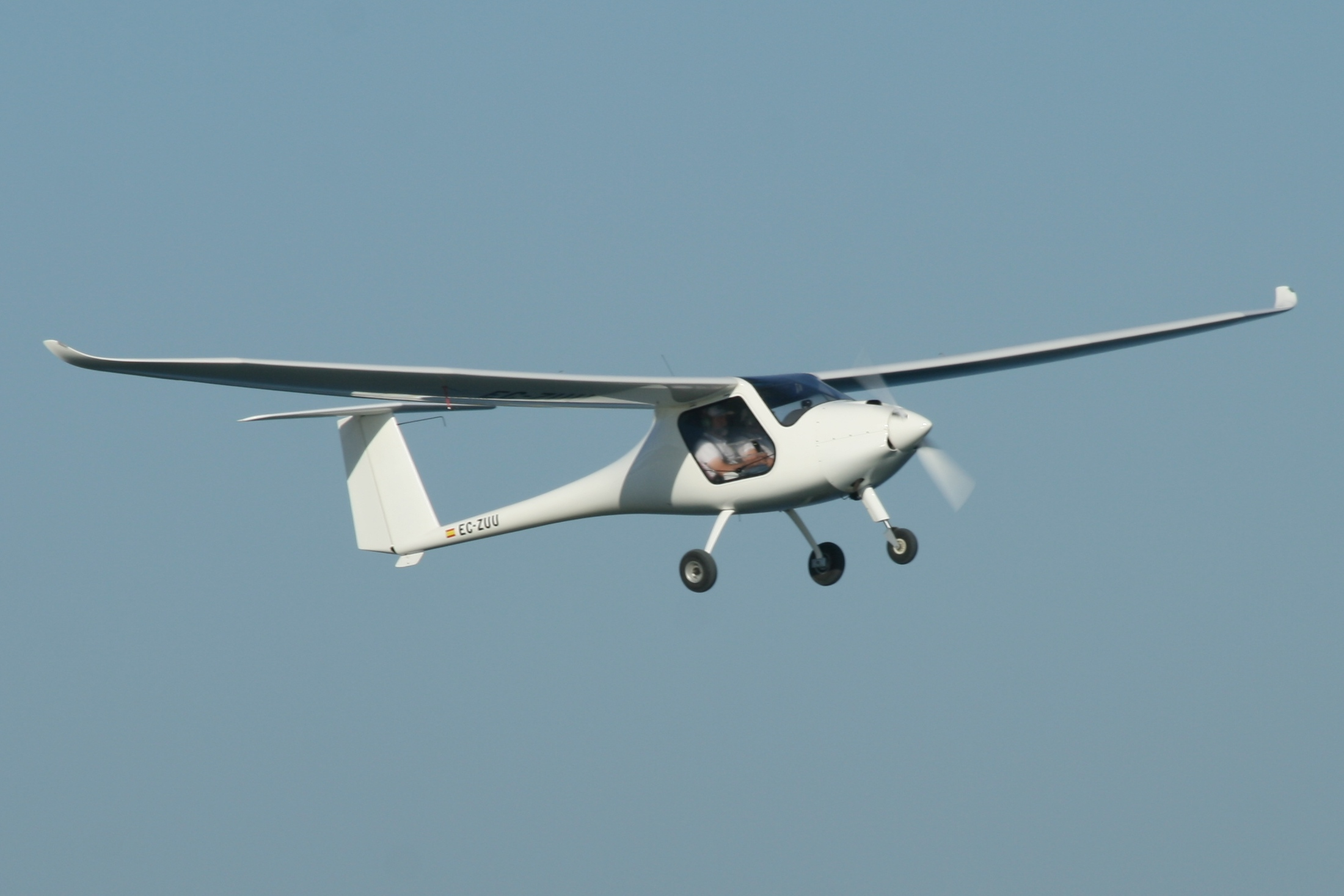 Vigo Air Show 2010